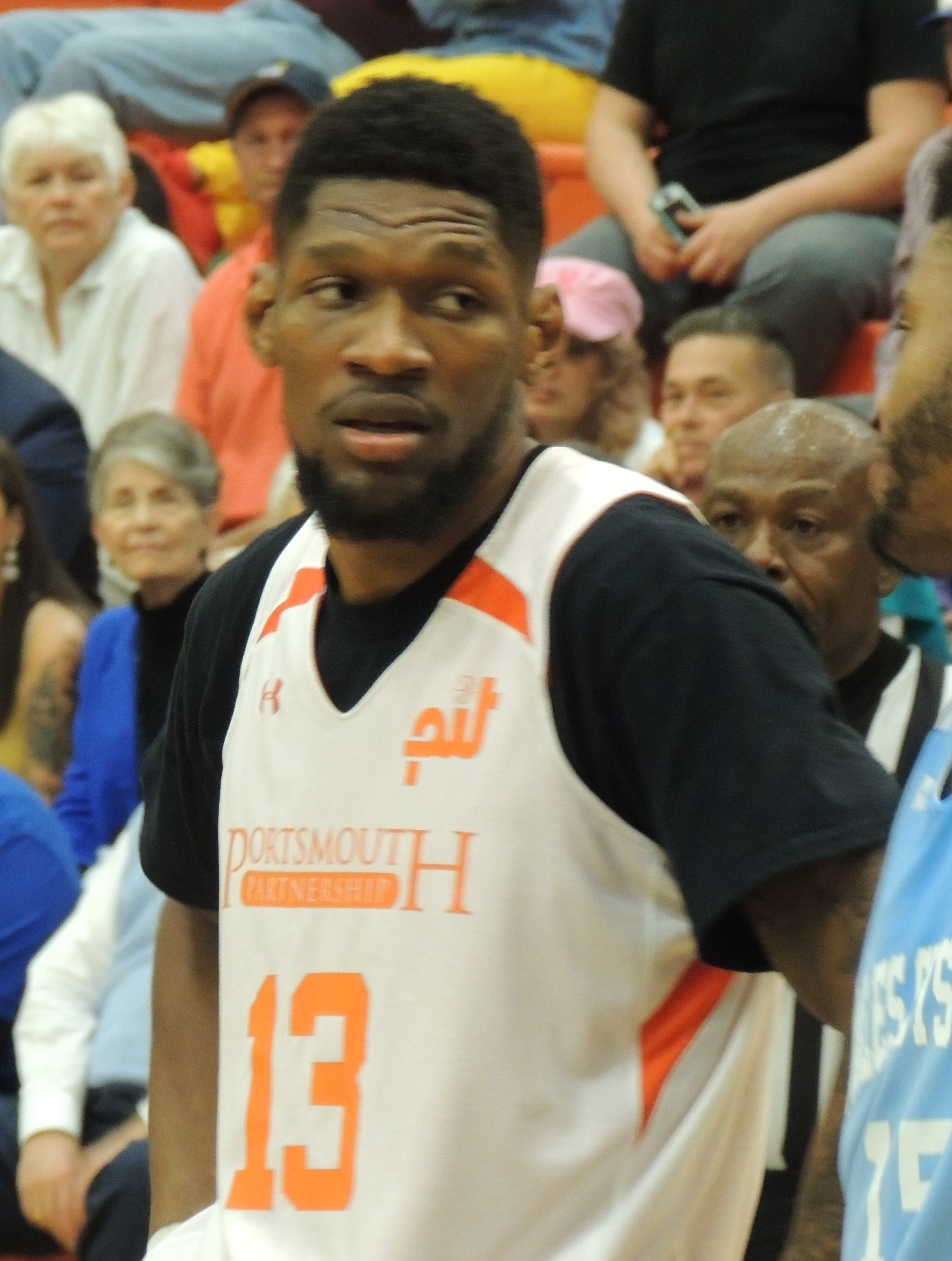 Gabonese basketball player Chris Silva from the University of South Carolina at the 2019 Portsmouth Invitational Tournament